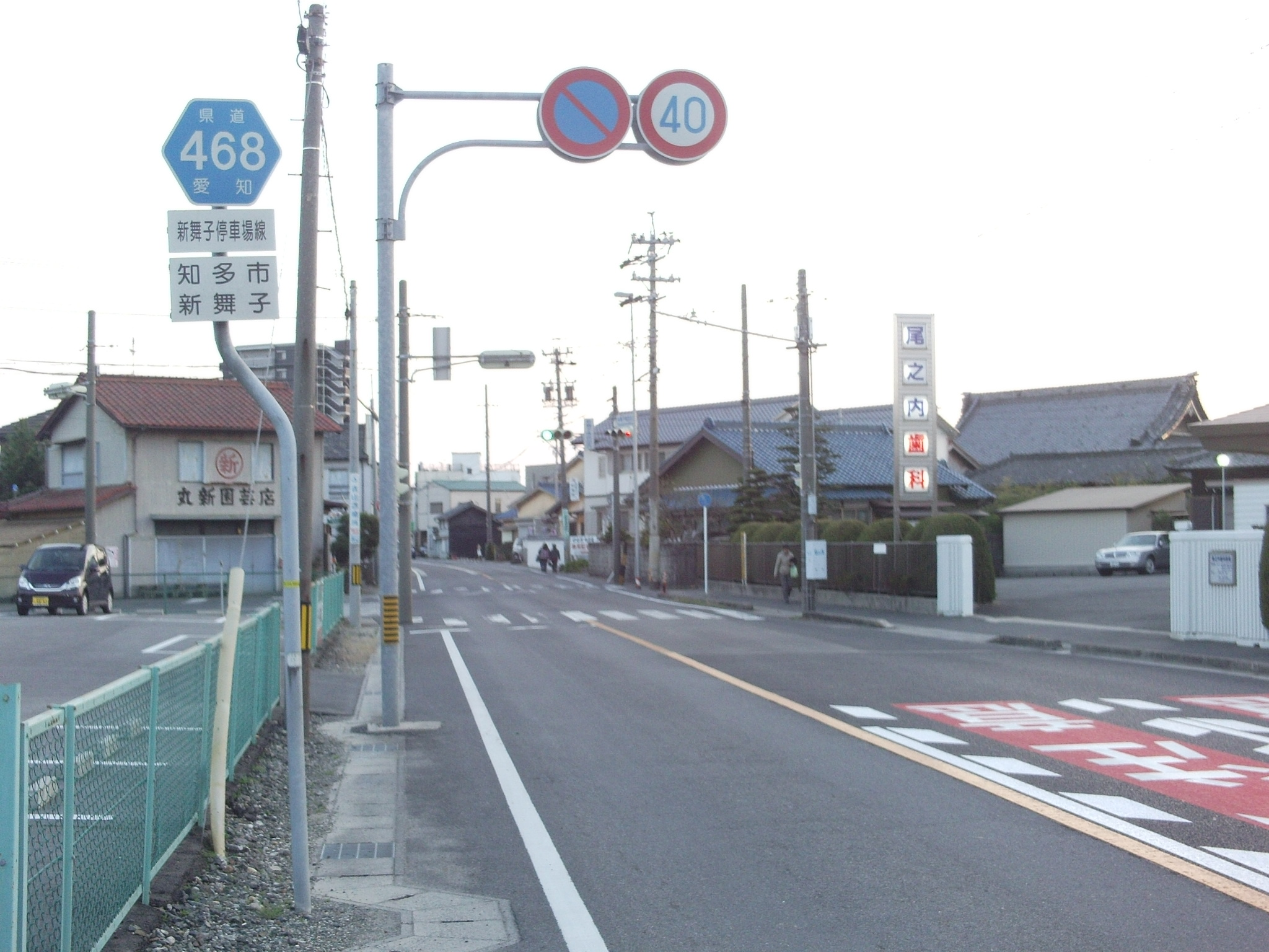 Aichi prefectural road No.468 in Shinmaiko, Chita, Aichi.